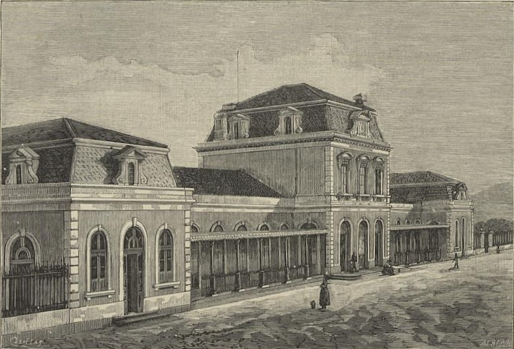 Valença Train Station, in the Minho Railway, in Portugal. This image was originally published in the Occidente magazine No. 227, of the 11th April 1885, and scanned by the Hemeroteca Municipal de Lisboa.